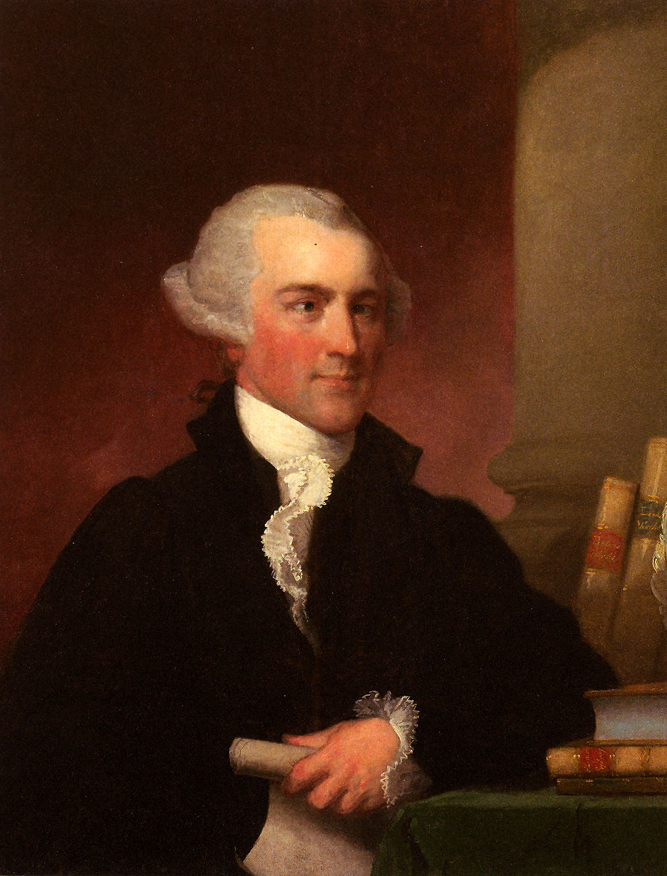 Portrait of Josiah Quincy, Jr., (1744-1775), "The Patriot," painted posthumously by Gilbert Stuart